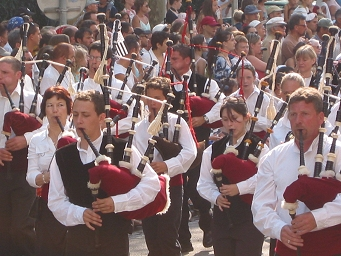 An original photograph taken by me at the Lorient Interceltic Festival